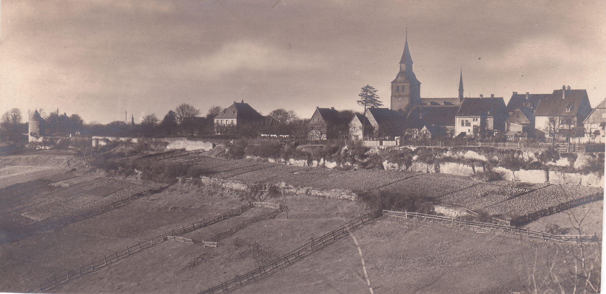 City of Rüthen, Germany